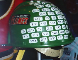 Image of the Green Hard Hat the Calgary Flames gave out during the 2003-04 Playoffs